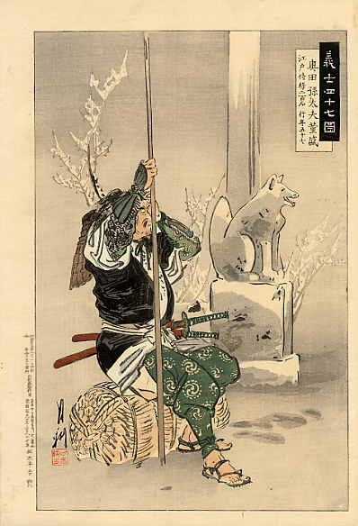 Ronin are masterless samurai. Chushingura is the true story of 47 samurai who became masterless in 1701, after their lord had been forced to commit ritual suicide (seppuku) for assaulting a court official who had insulted him. They avenged him by killing the court official after patiently planning for over a year. They were themselves then forced to commit seppuku.